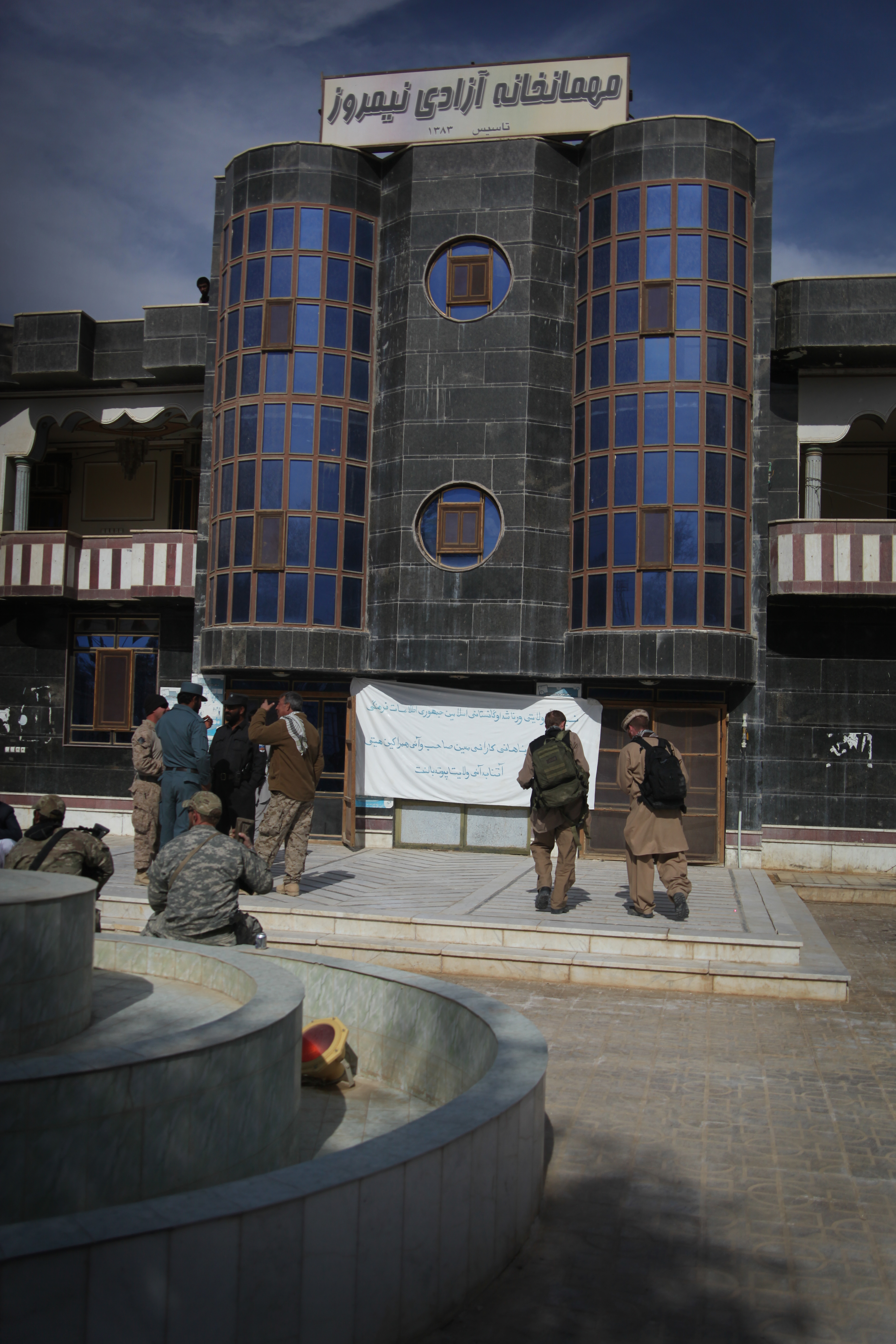 Afghan government officials and Marine officials traveled to the provincial governor’s compound at Zaranj, Jan. 18, to interact with local youths at a shura. Zaranj is the capitol of Nimruz province. The shura hosted nearly 300 young men and women between the ages of 14 through 30. Zaranj, was the tenth province to host a youth shura. Afghan officials plan to conduct youth shuras in all 34 provinces. (Photo ID: 359494)